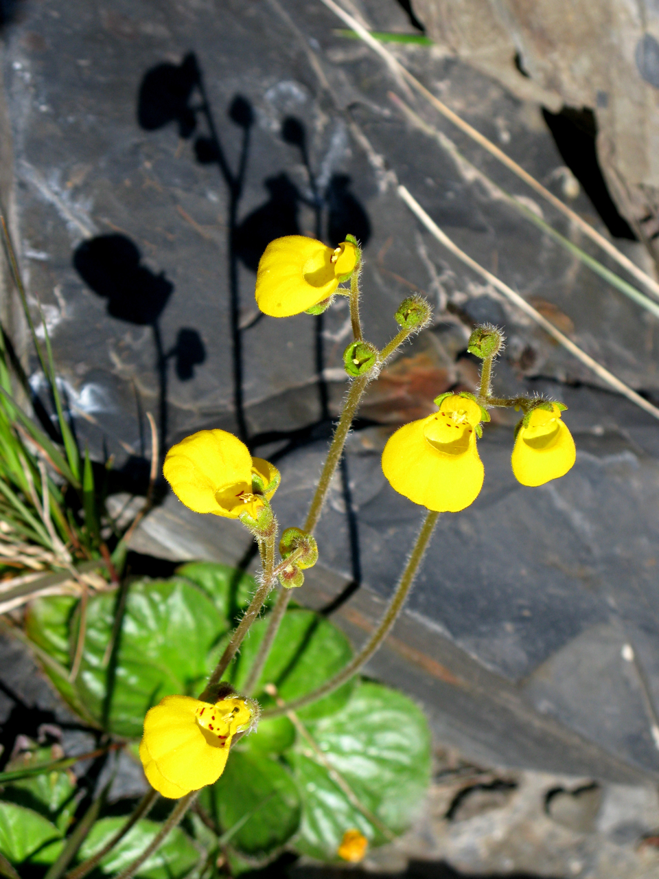 Calceolaria biflora Lam. (Chile)